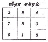 An image of Seetha Chakram as a magic square extracted from Vakya Panchangam published by Srirangam Temple.